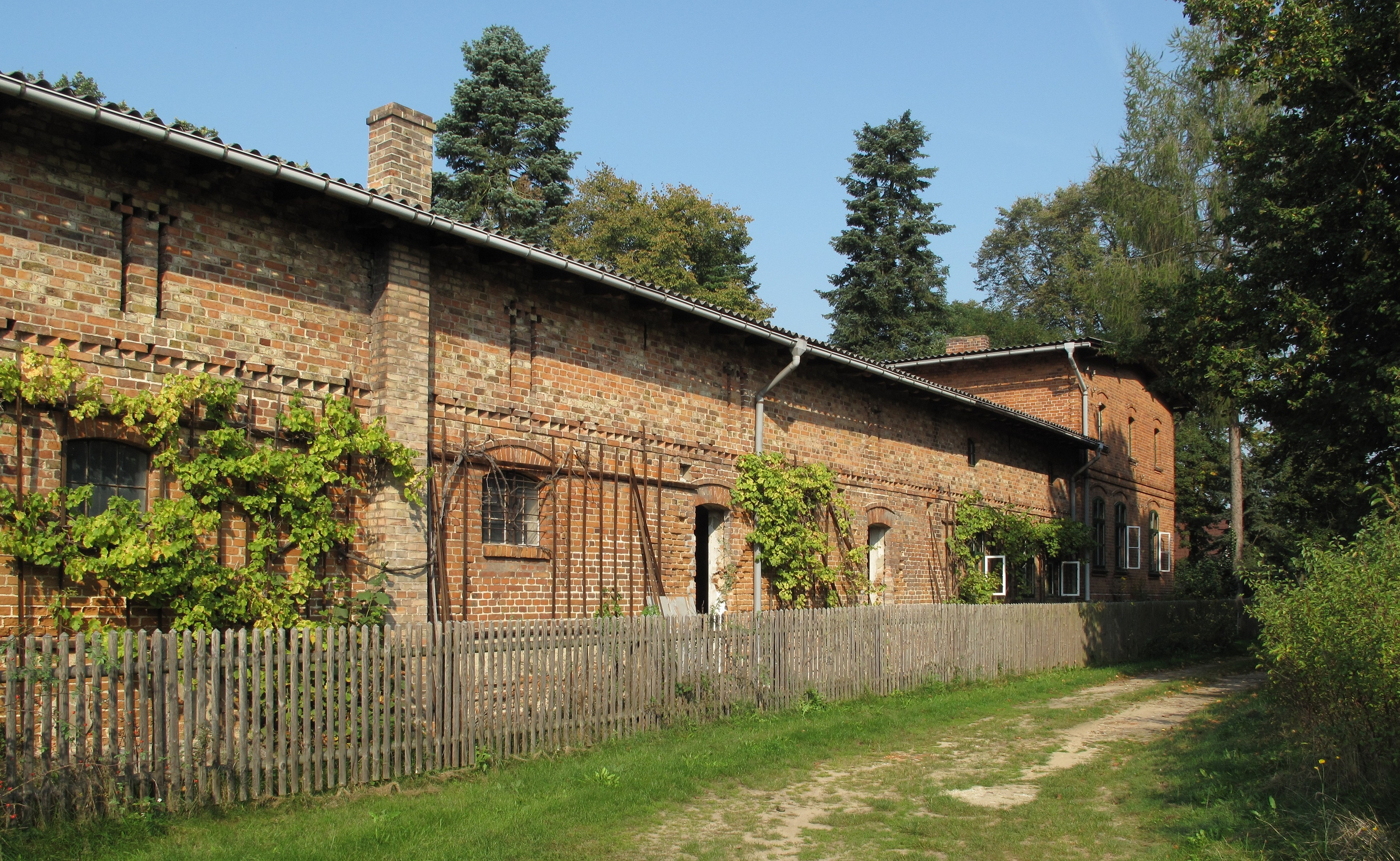 Listed former forestry „Alte Försterei Briescht“. Briescht is a part of the municipality Tauche in the District Oder-Spree, Brandenburg, Germany. Listed are: Forestry with forester's lodge, horse stable, two barns and earth cellar. The forestry was built around 1900. The operating was finished in 1990. Since 2009 privatized, the „Alte Försterei Briescht“ is a place for arts, culture and recreation, today.